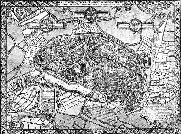 Map of Duisburg 1566 made by Johannes Corputius